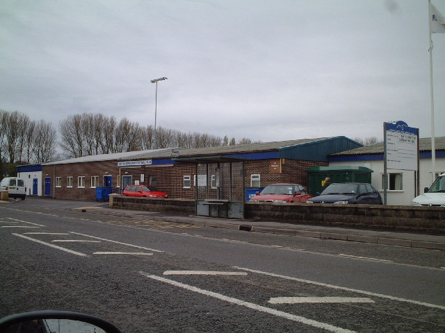 Weston Super Mare Football Club